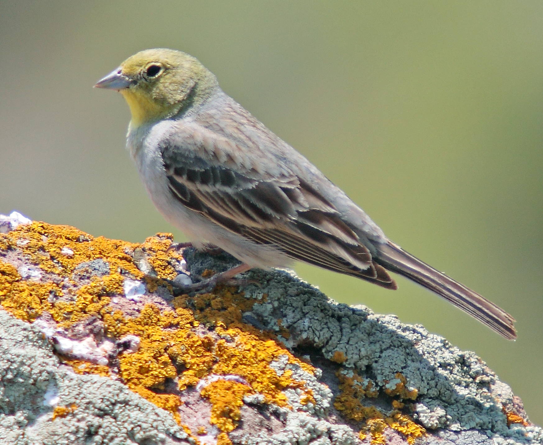 Male cinereous buntting (Emberiza cineracea) at the Petrified Forest, Lesvos, Greece